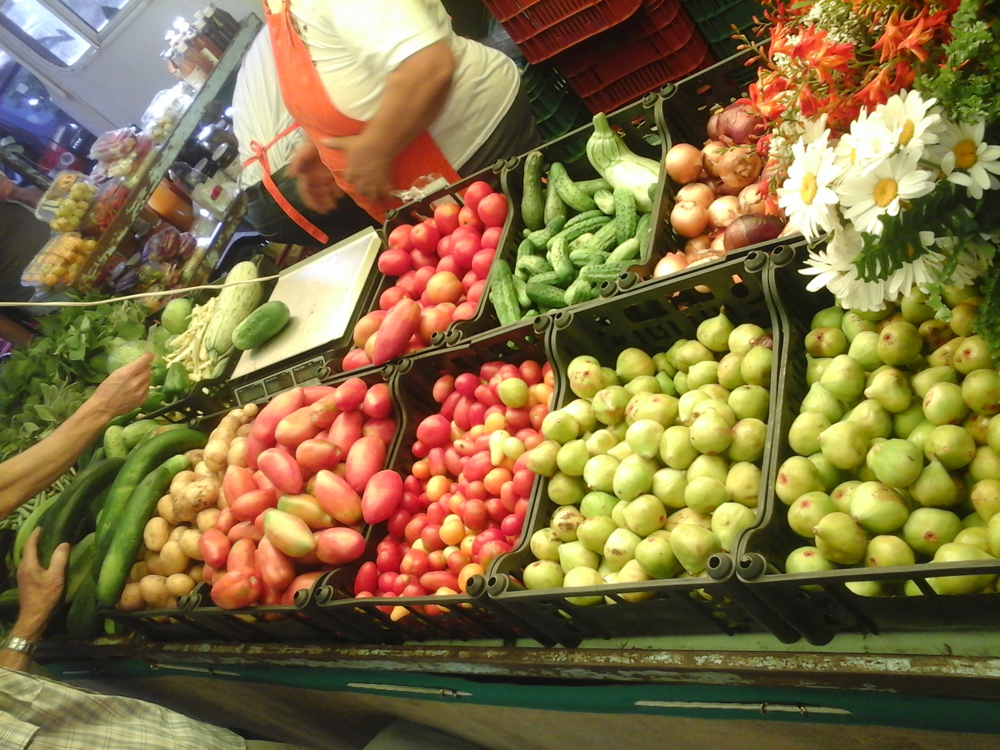 Vegetables at organic fair of Redenção, city of Porto Alegre, southern Brazil. Year 2017.